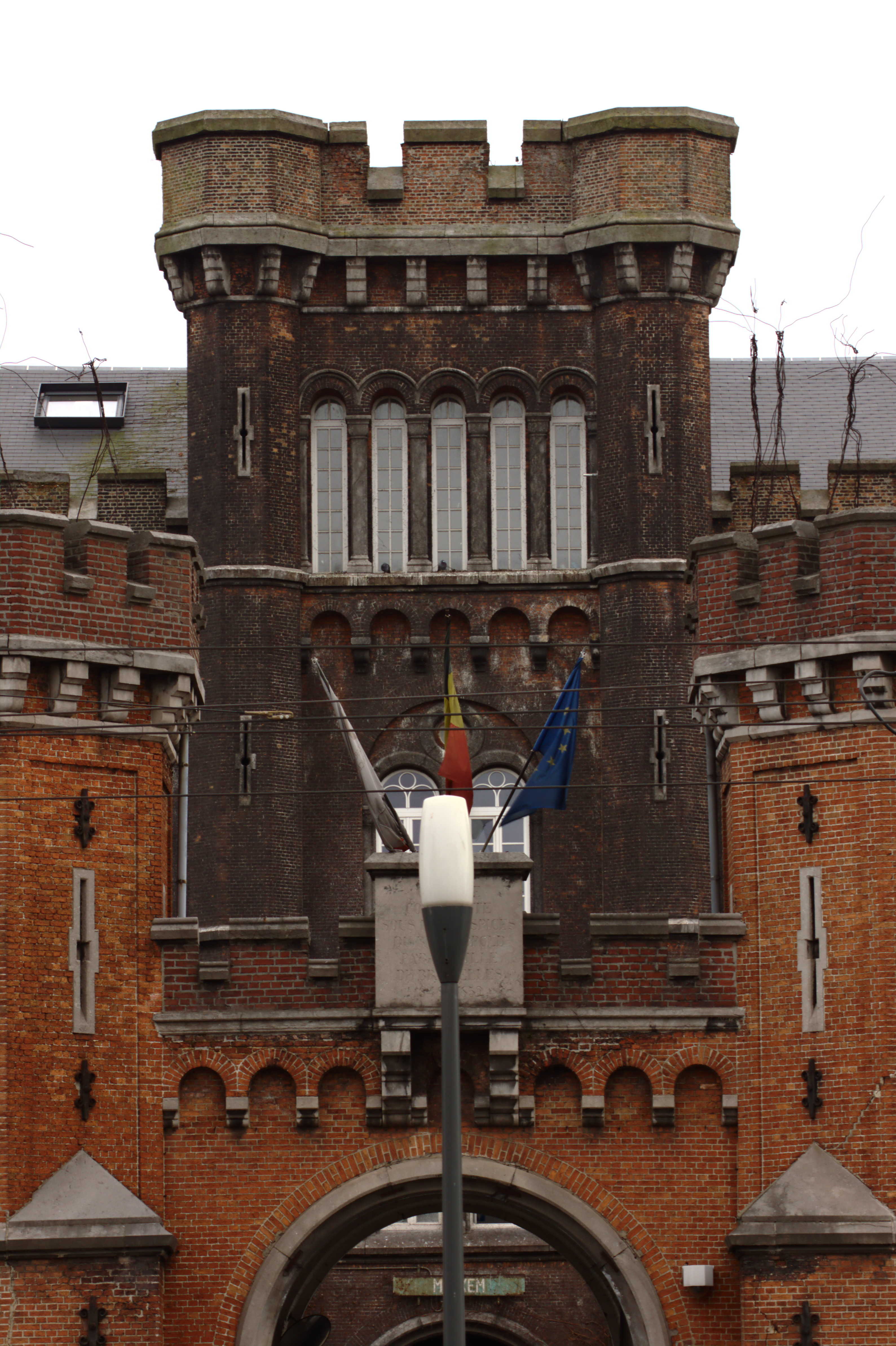 Front side of Klein Kasteeltje building in Brussels, BE